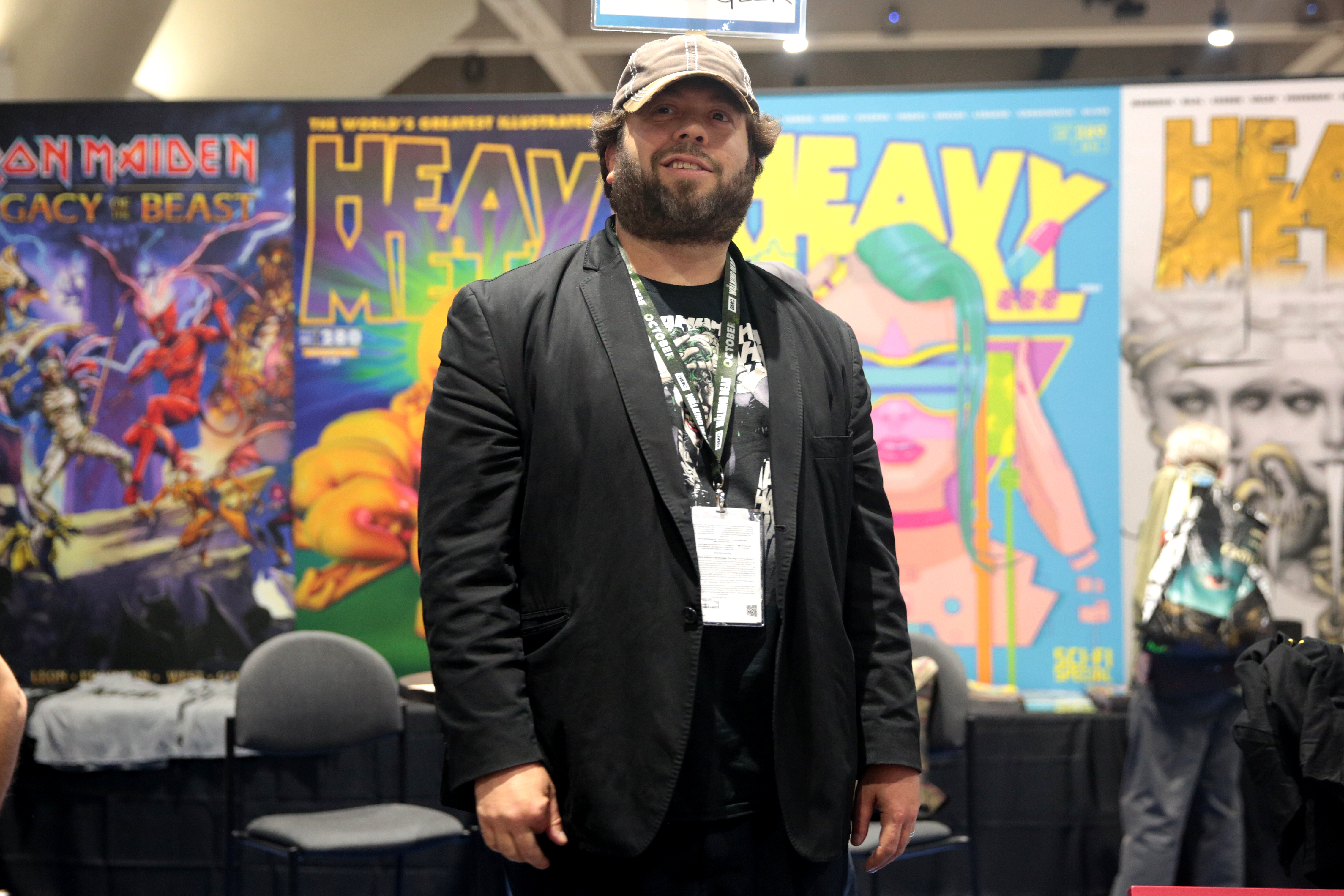 Dan Fogler on the exhibit floor at the 2018 San Diego Comic-Con International at the San Diego Convention Center in San Diego, California.